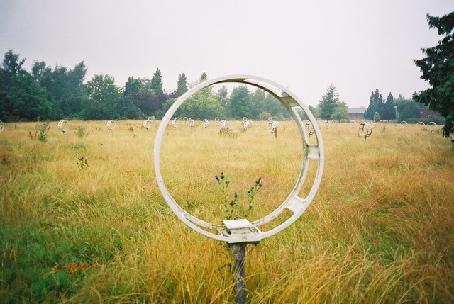 The Aerial Field, Stirling Lines Now covered by housing